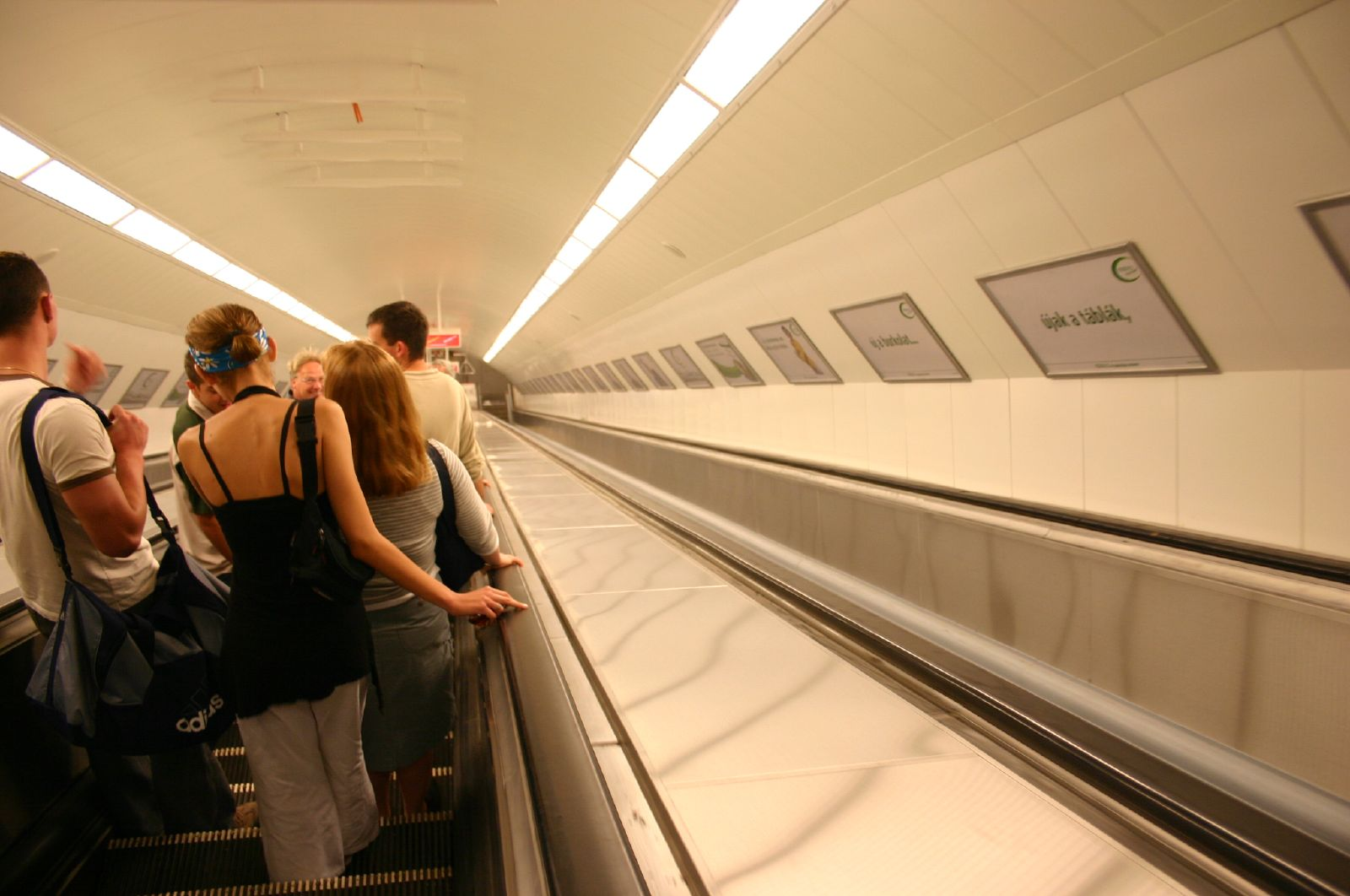 An escalator at a Metro station in Budapest, Hungary